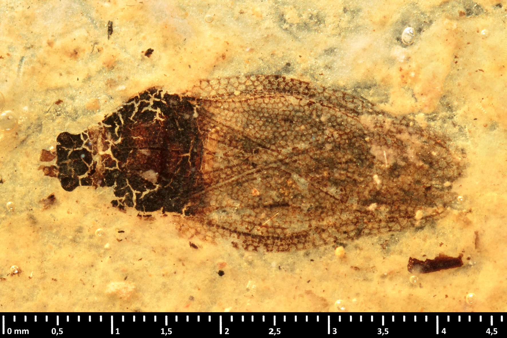 The Miotingis cantalensis holotype specimen with direct lighting. Messinian, Miocene; Foufouilloux outcrop, Sainte-Reine, Cantal, France Muséum national d'Histoire naturelle specimen MNHN.F.R10395